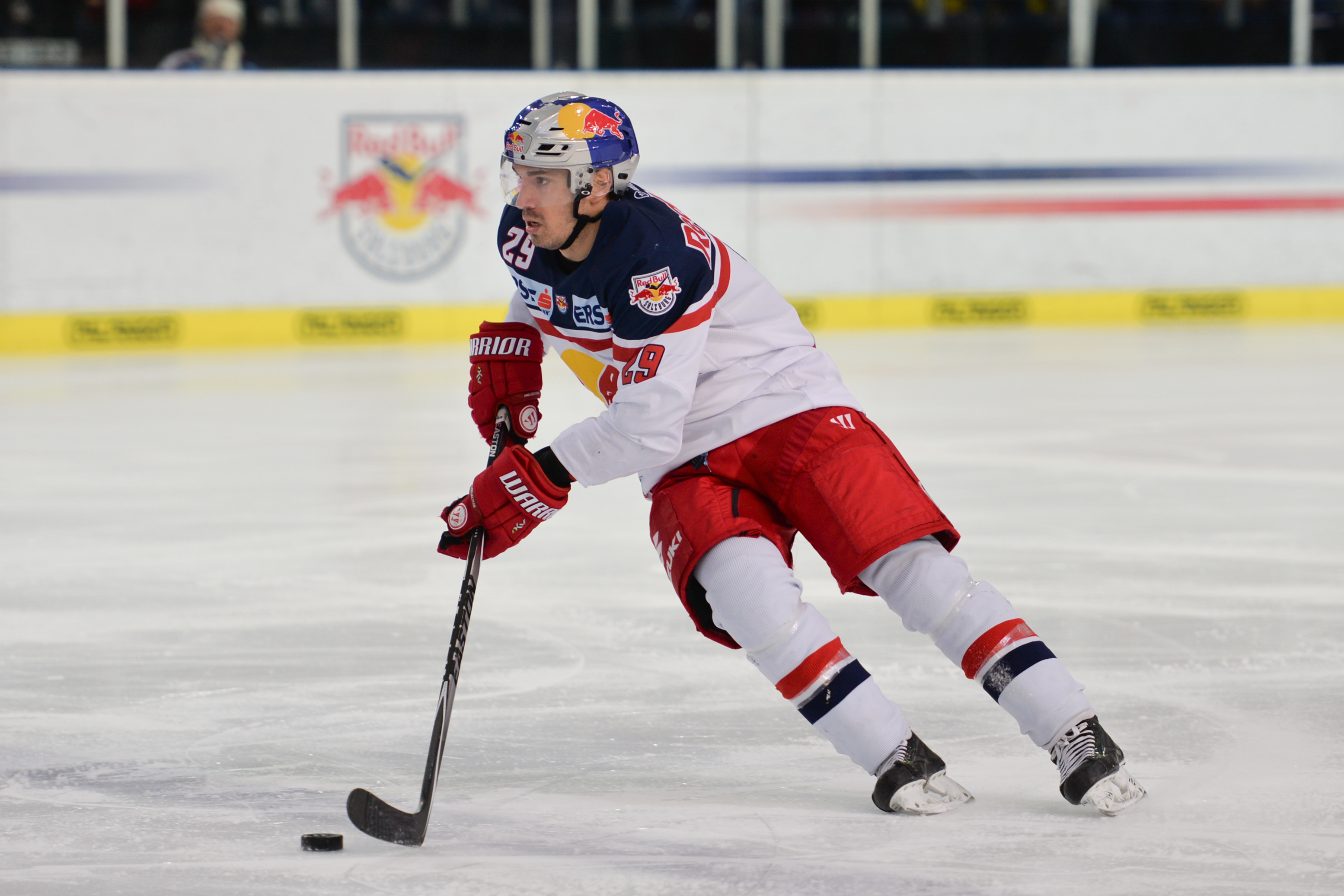 EBEL Red Bull Salzburg vs Olimpija Ljubljana 2016-01-17